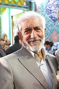 Mohammad Gharazi in Hosseiniyeh Ershad